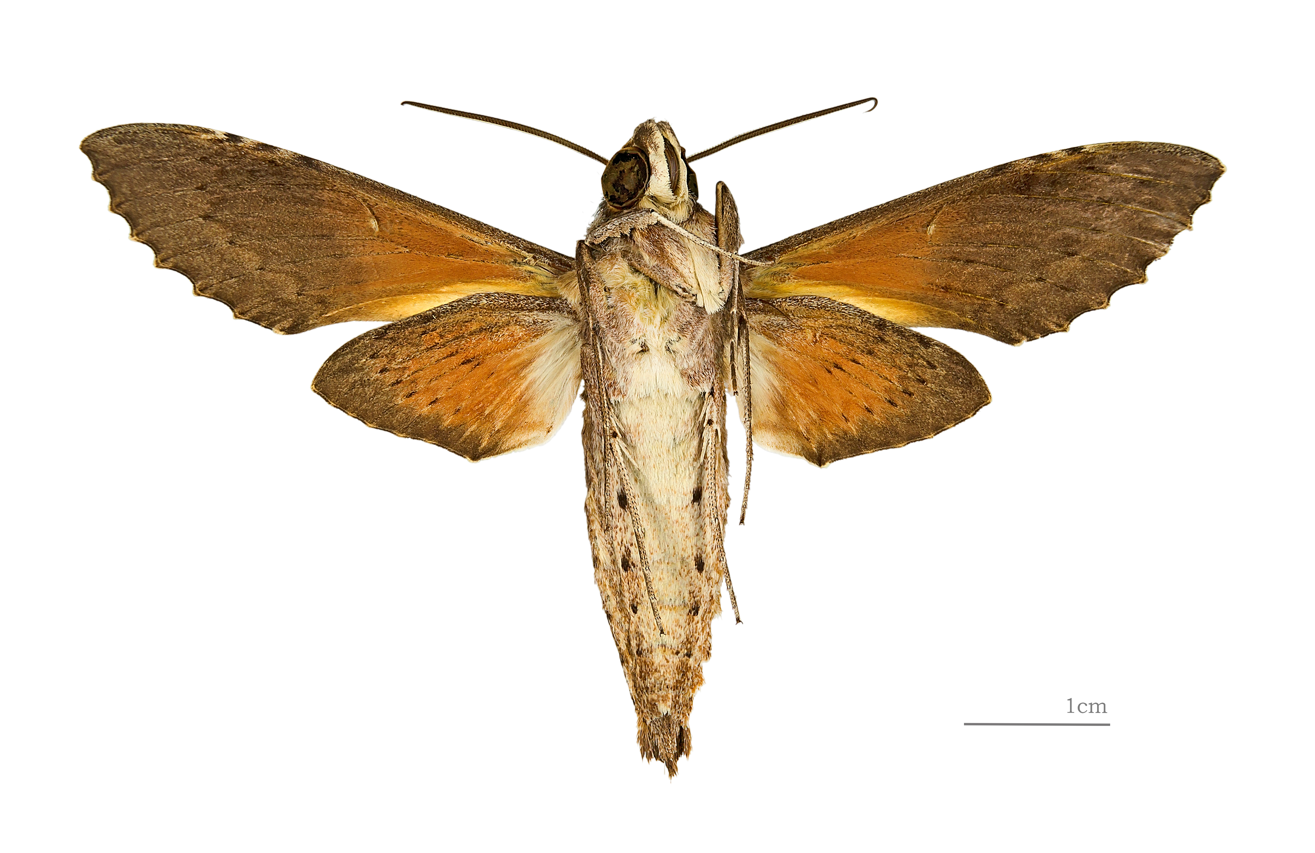 Erinnyis oenotrus - △ Ventral side